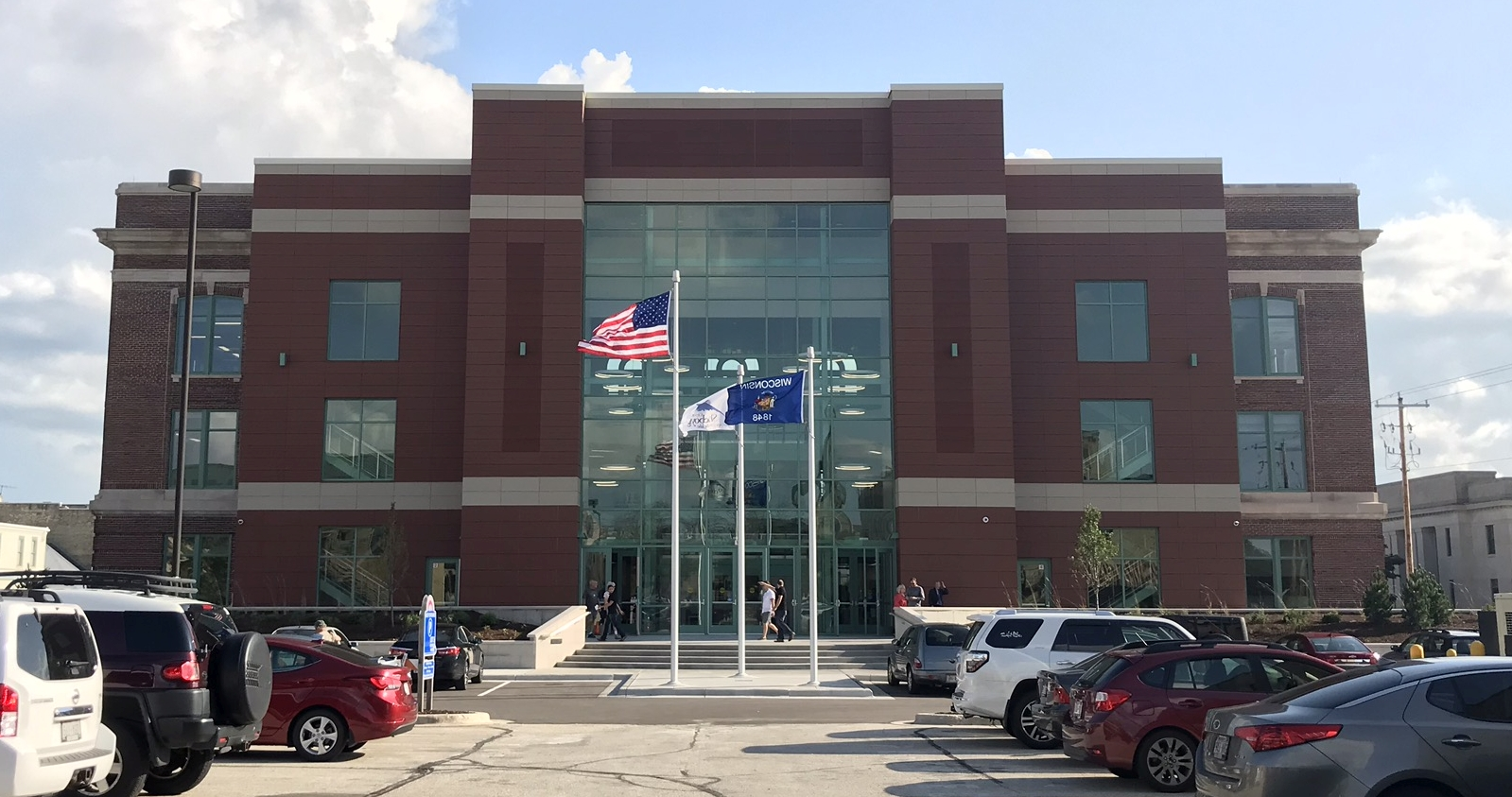 An image of Sheboygan, Wisconsin's City Hall building on September 3, 2019, the day the building was re-dedicated after a year-long renovation.